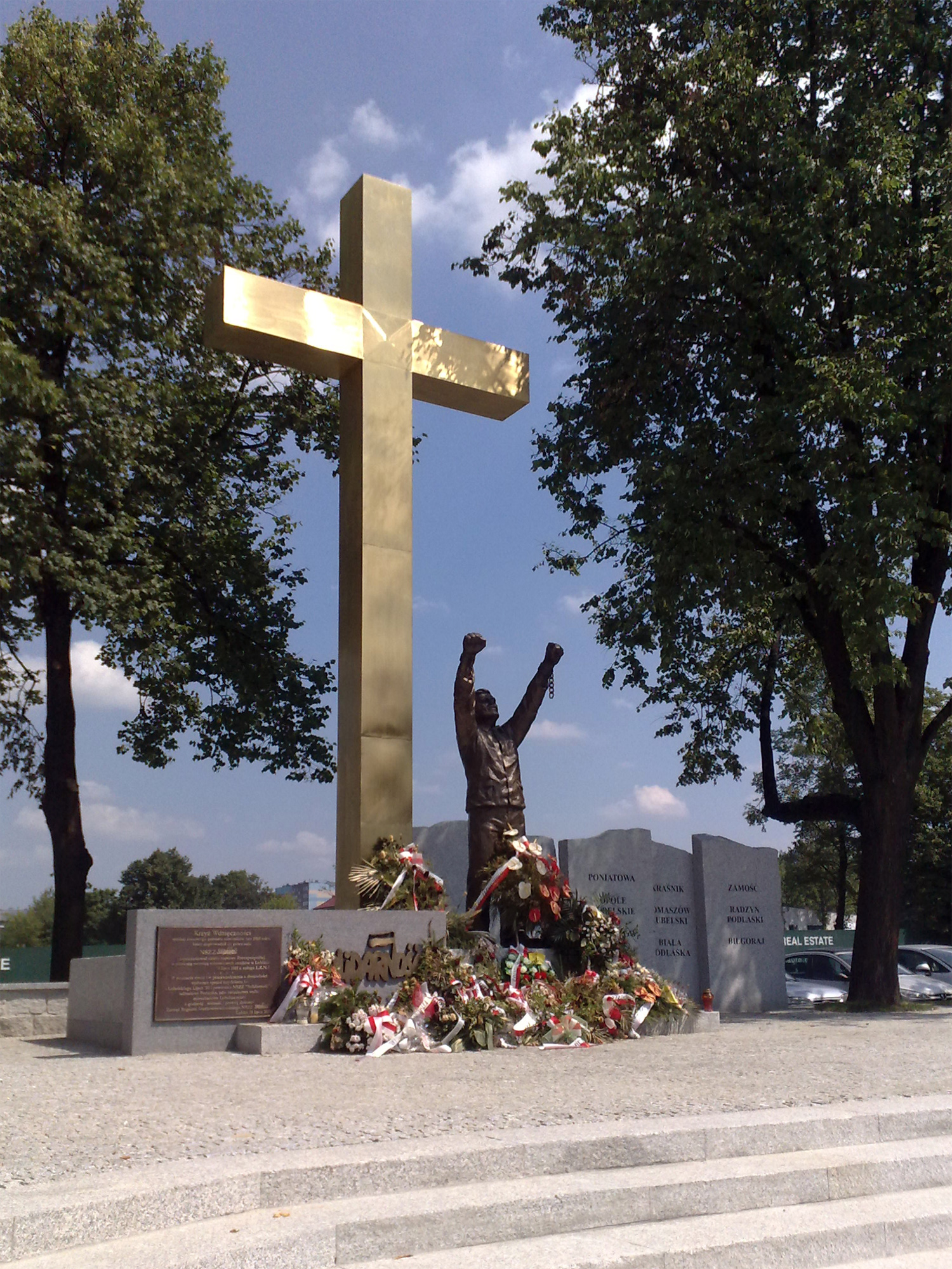 Lublin July 80th. The cross and the memorial plaque beside LZNS. Martyrs Road Majdanek.